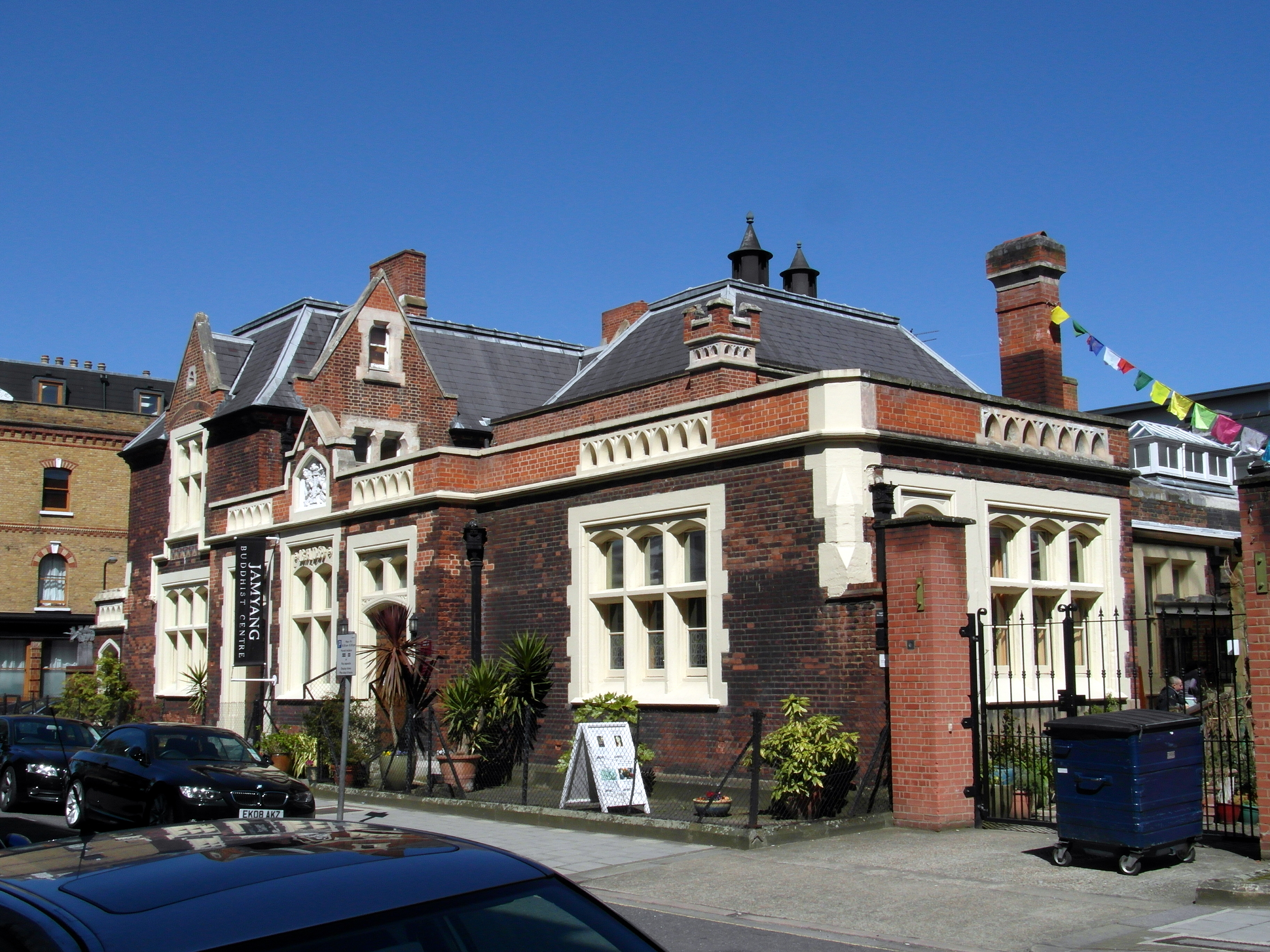 Renfrew Street, Lambeth, London. Designed by T C Sorby and completed 1869.